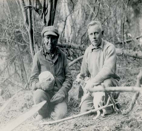 American explorer, author and conservationist Ernest Oberholtzer (right) with dog Skippy and Ojibwe trapper and guide Billy Maggie (left) holding cabbage.